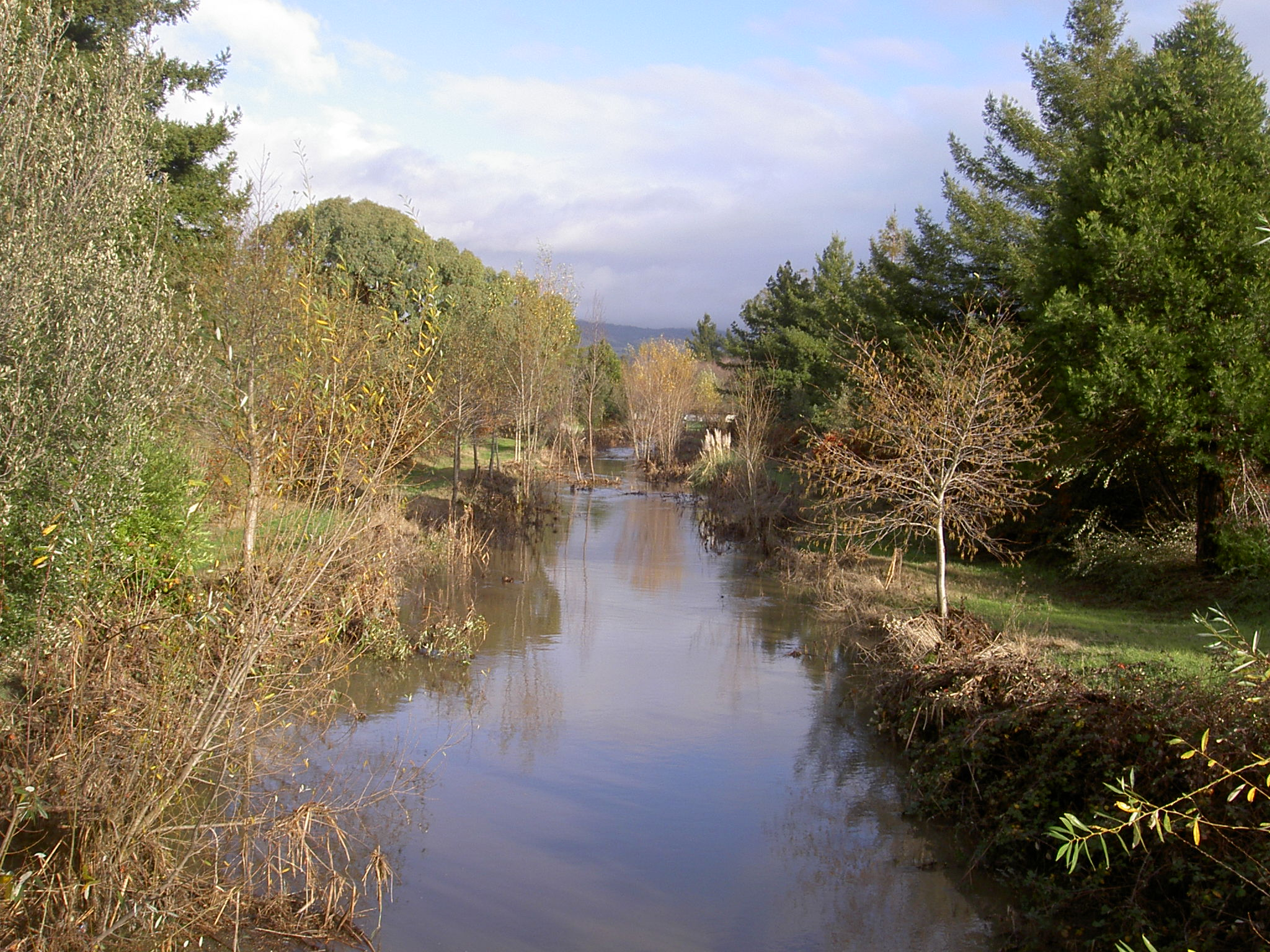 Hinebaugh Creek in Rohnert Park, California; looking east